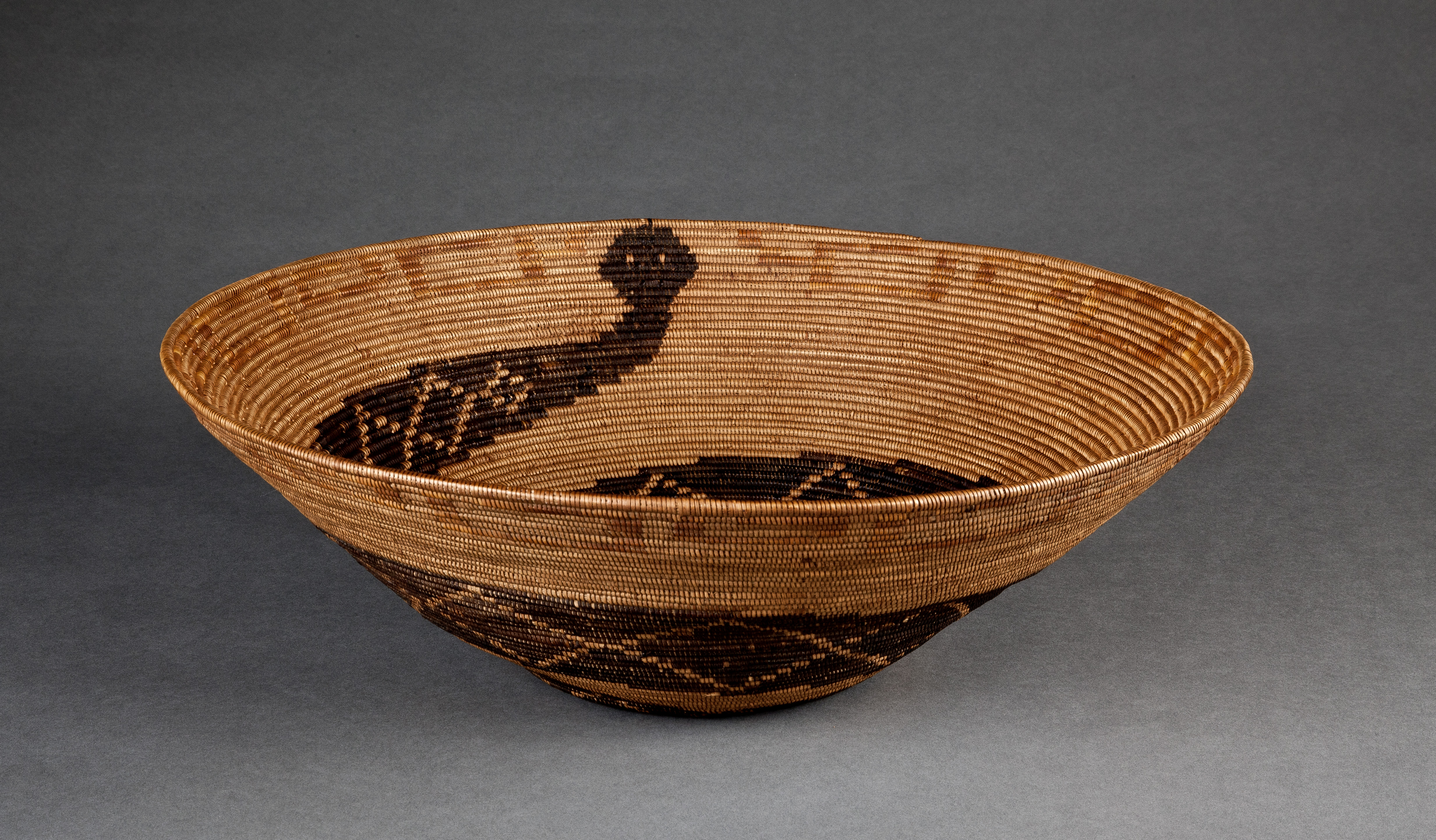 Basket, Cahuilla, California